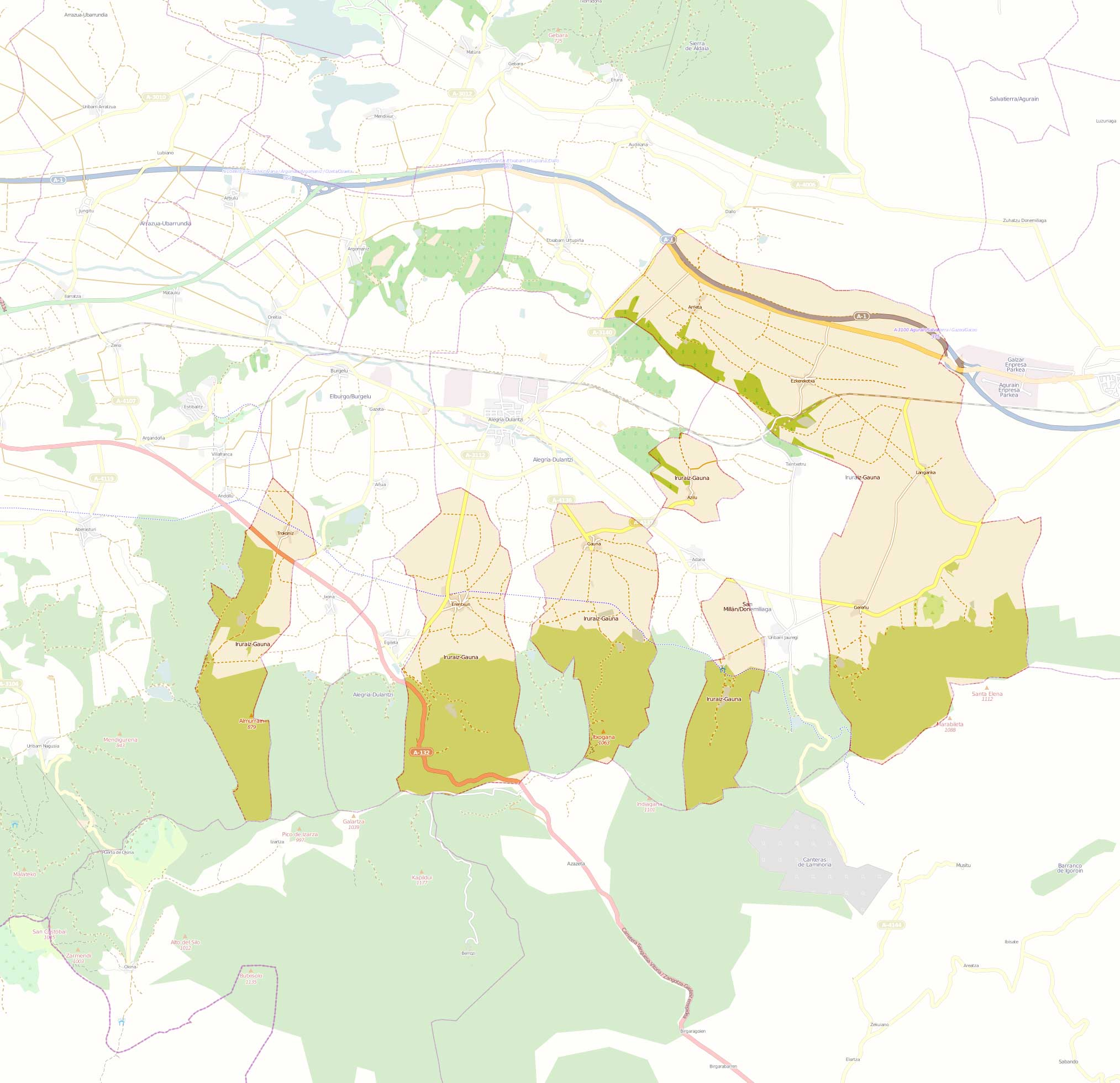 Map of municipality Iruraitz-Gauna, in Araba, Basque Country